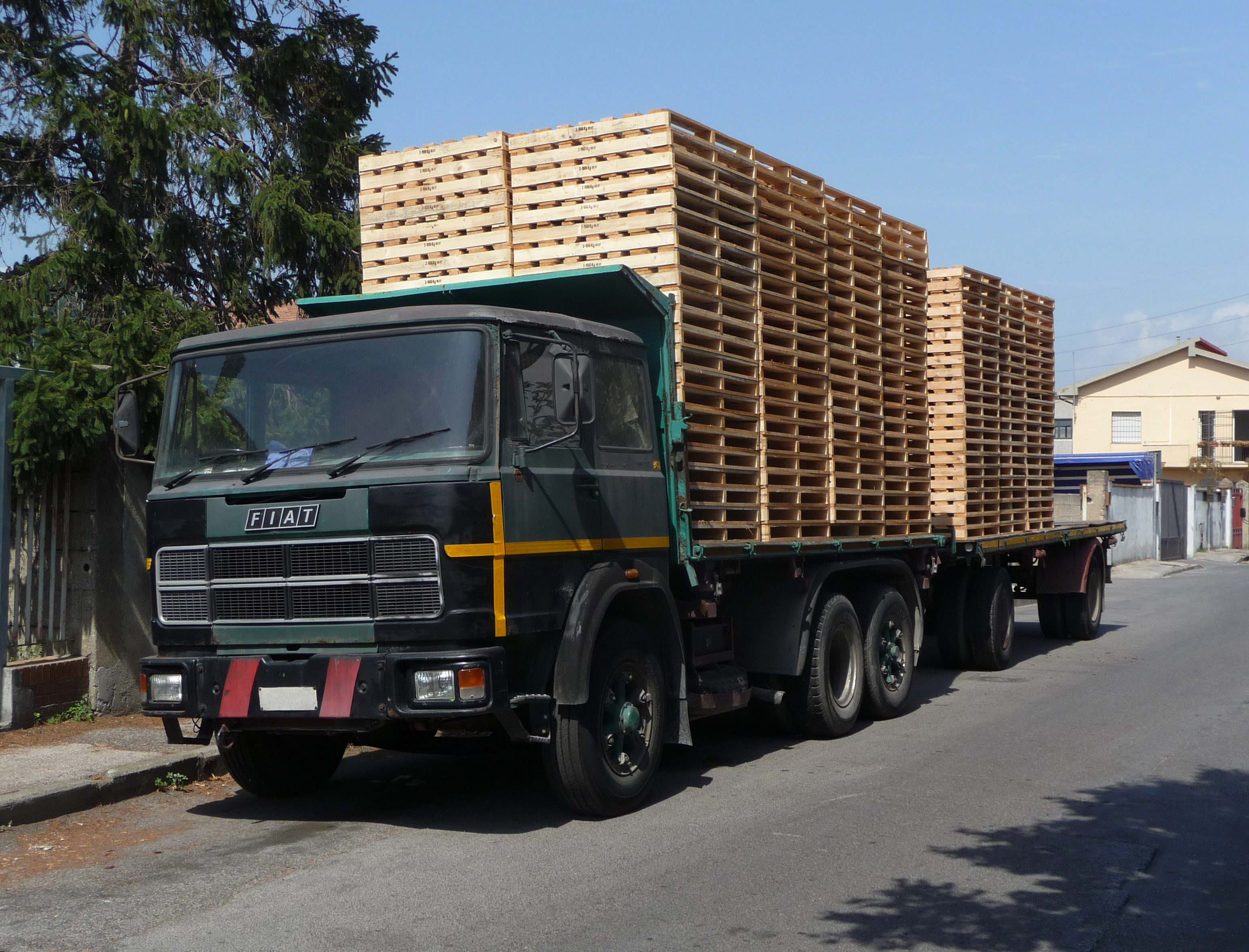 Fiat 619 N1 truck (1970-1980)